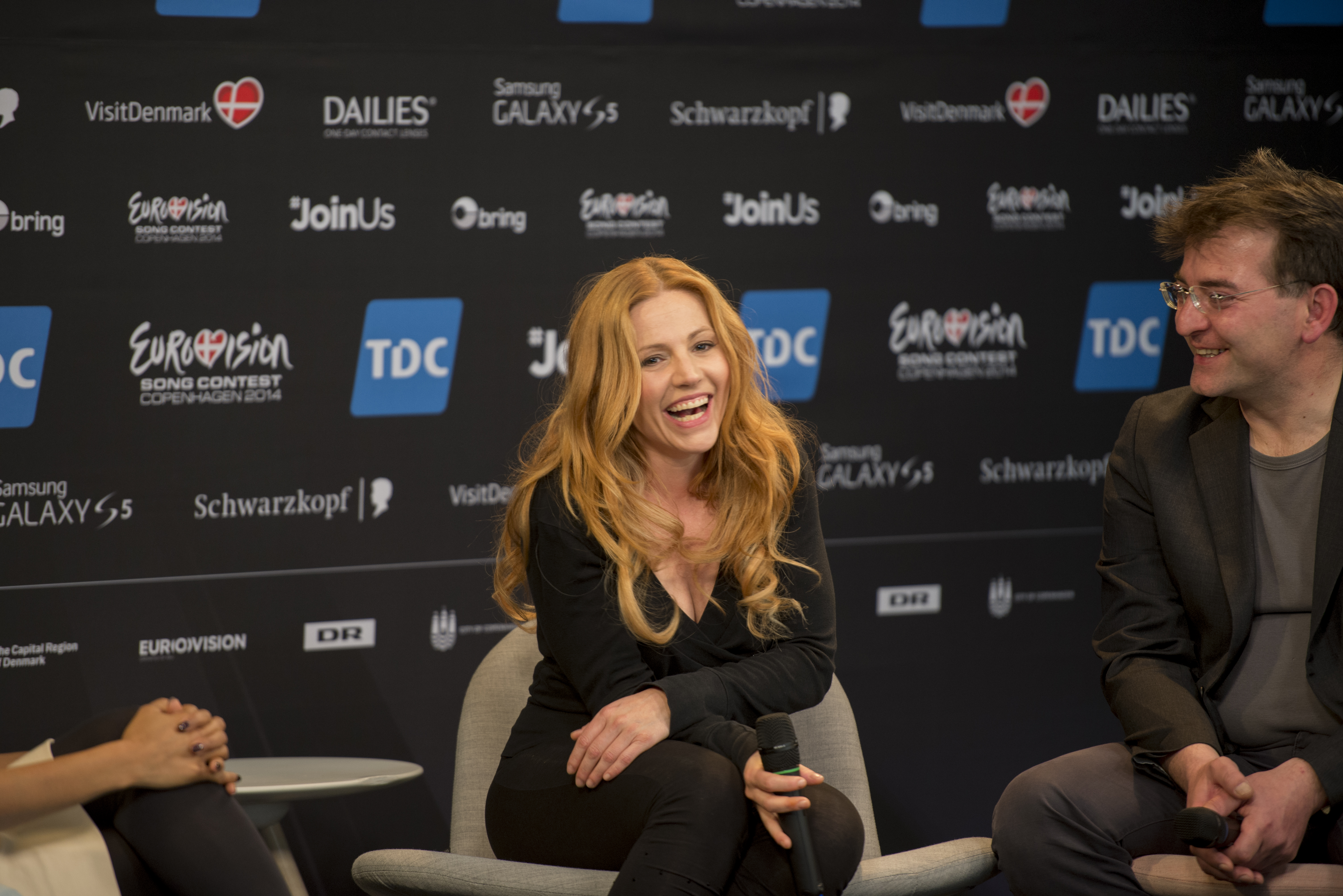 Valentina Monetta at a Meet & Greet during the Eurovision Song Contest 2014 Copenhagen. (Help translate this text)